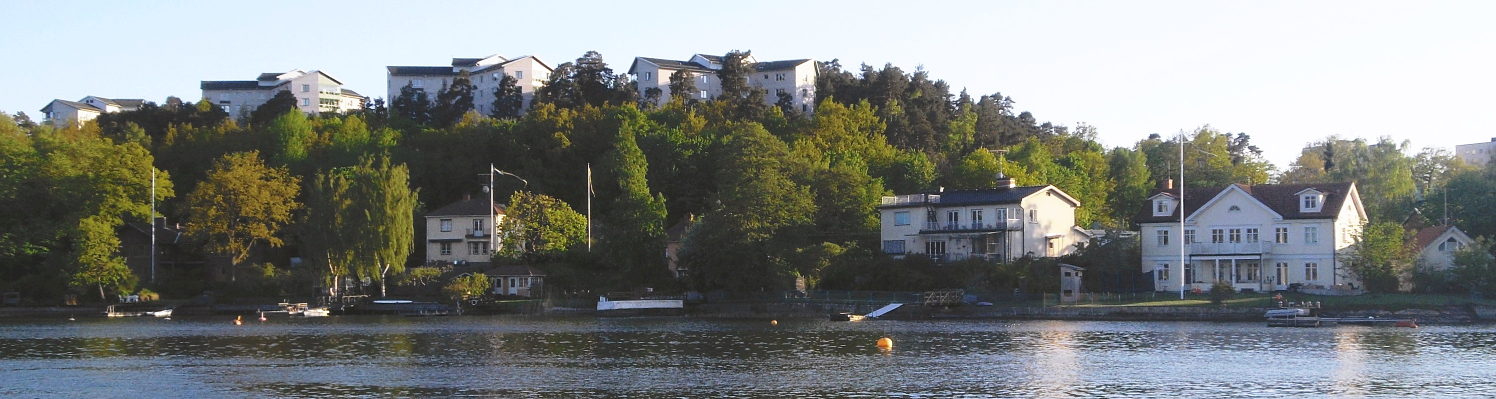 Stocksundstorp, Solna, Sweden